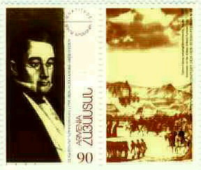 Stamp of Armenia